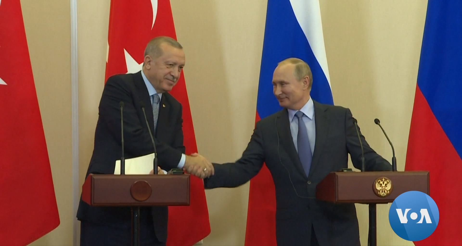 Russian President Vladimir Putin shakes the hand of Turkish President Redgep Erdogan after the two agree on the Second Northern Syria Buffer Zone agreement.